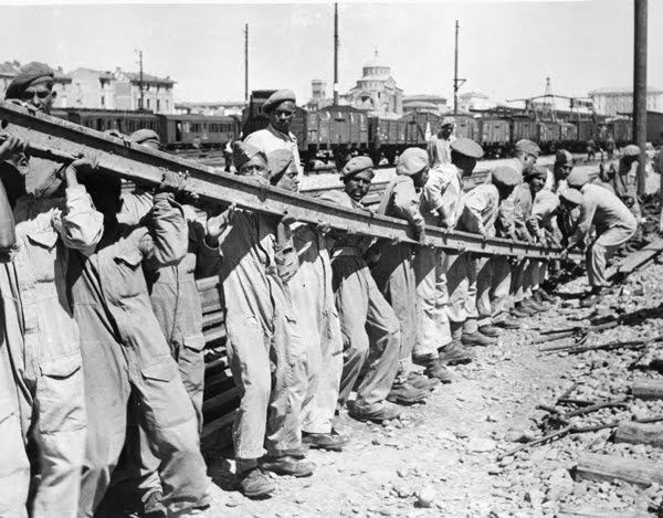 A week before the German surrender in Italy, sappers of 136 Indian Railway Maintenance Company set about repairing some of the extensive damage in the railyards of Bologna, Italy